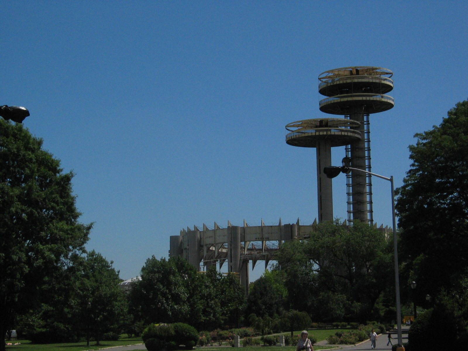 At the Flushing Meadows Corona Park